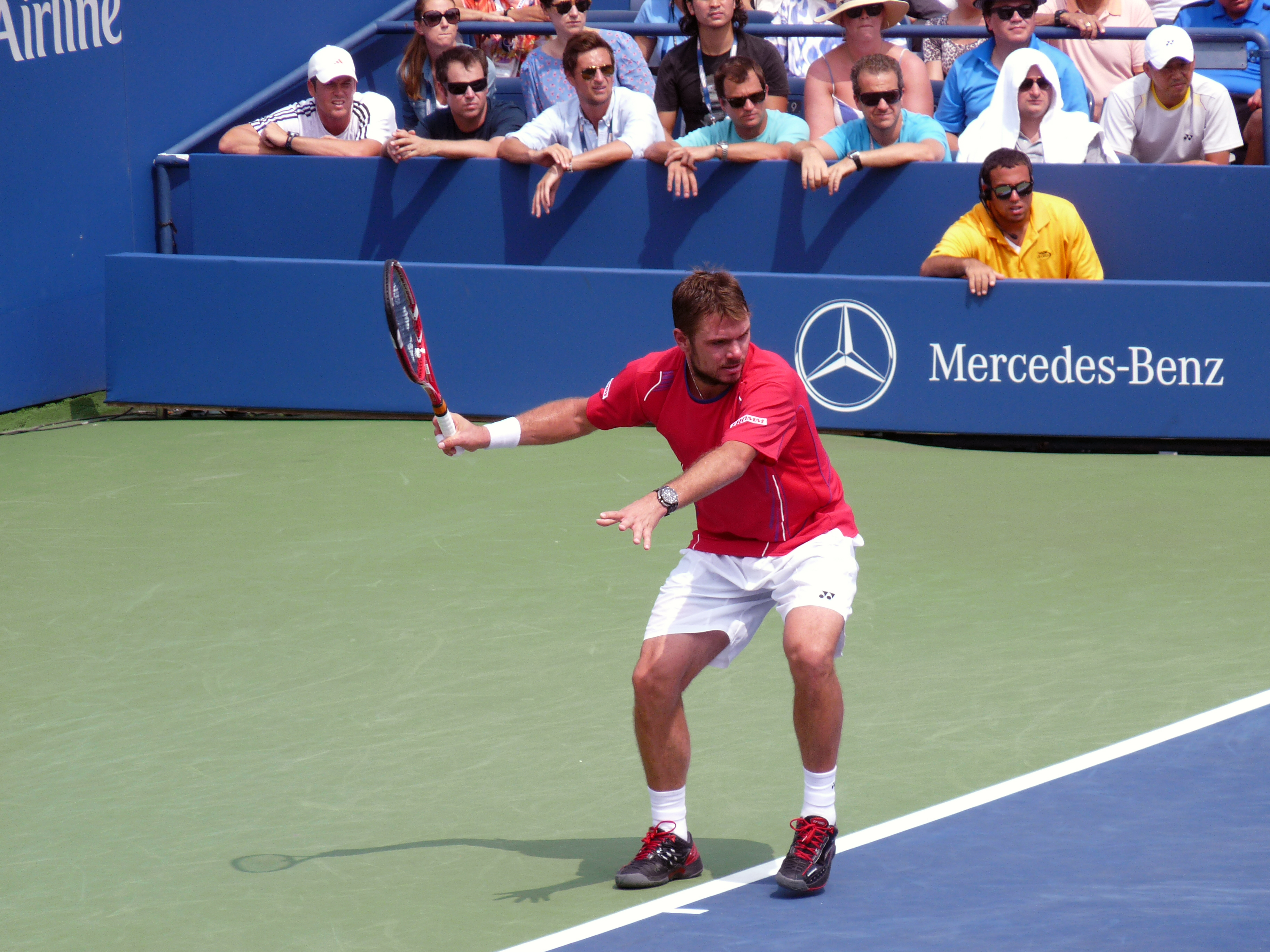 US Open 2013 – Men's Singles 3rd Round (Louis Armstrong Stadium) – Stanislas Wawrinka [9] vs. Cyprus Marcos Baghdatis: 6–3, 6–2, 61–7, 7–67